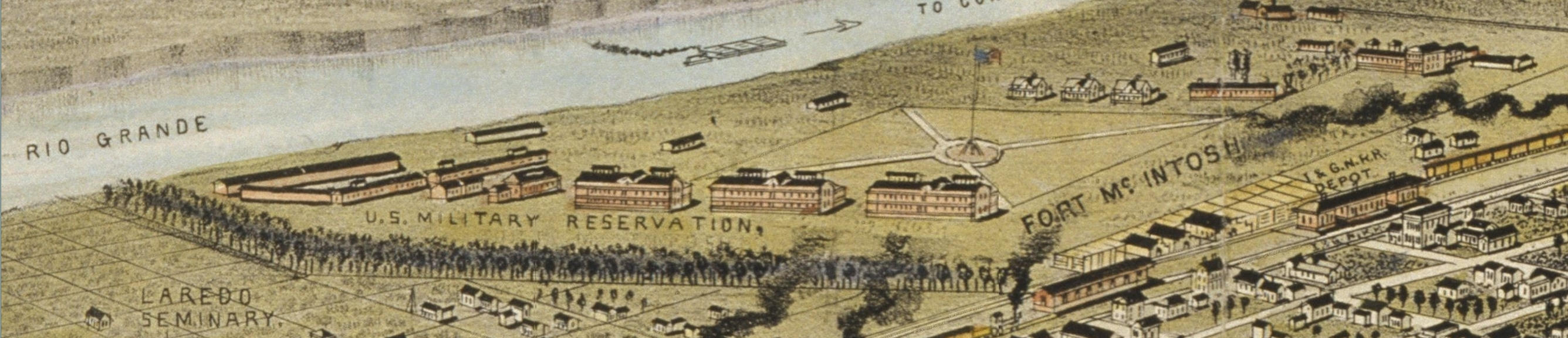 drawn 1892